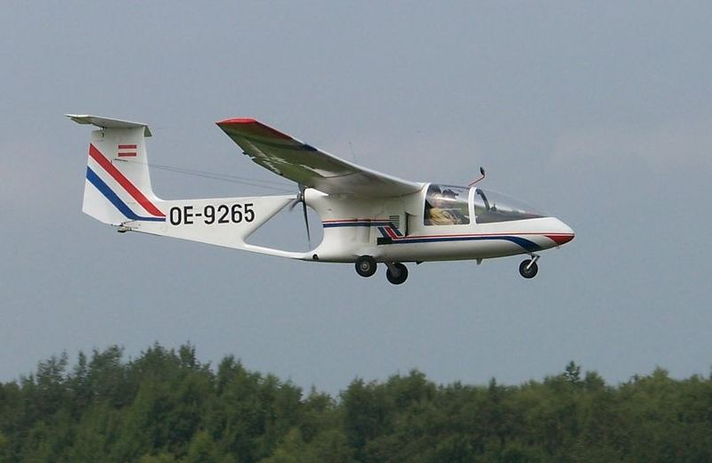 HB Brditschka HB 23 2400 at Spa airfield, Belgium; REgistration: OE-9265; Manufacturer: HB Brditschka GmbH & CoKG; Model: HB 23/2400